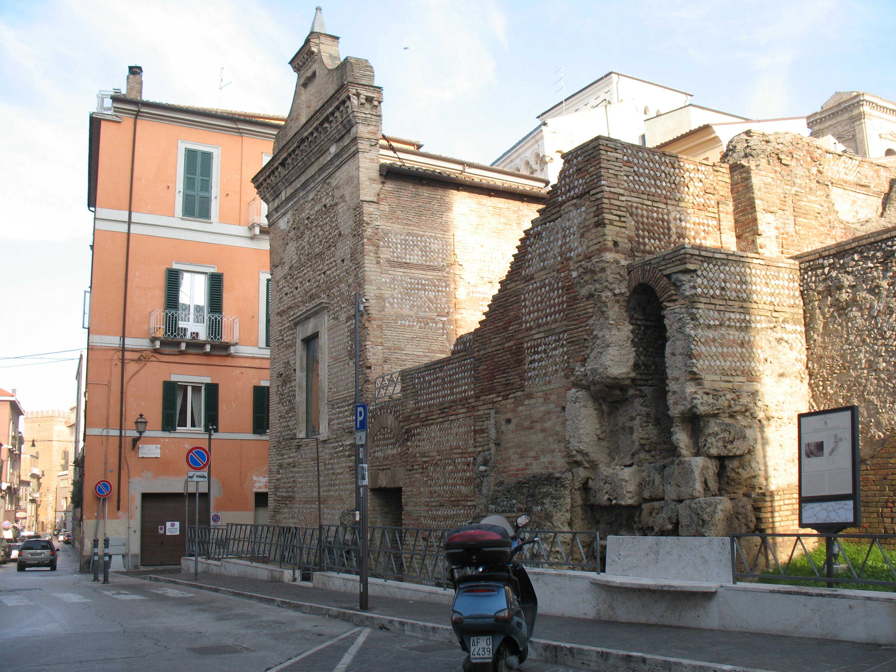 This building was a temple of ancient Teate Marrucinorum.